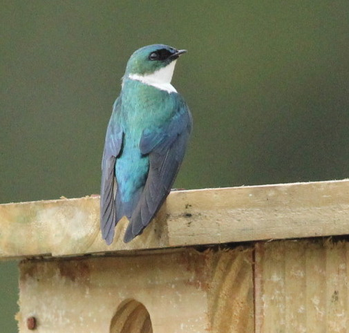 Parque Valle Nuevo, Dominican Republic